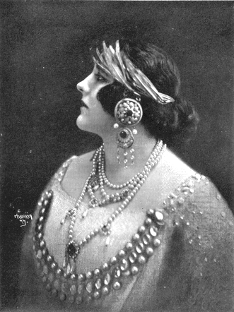 Marguerite d'Alvarez (1883 - 1953) English contralto